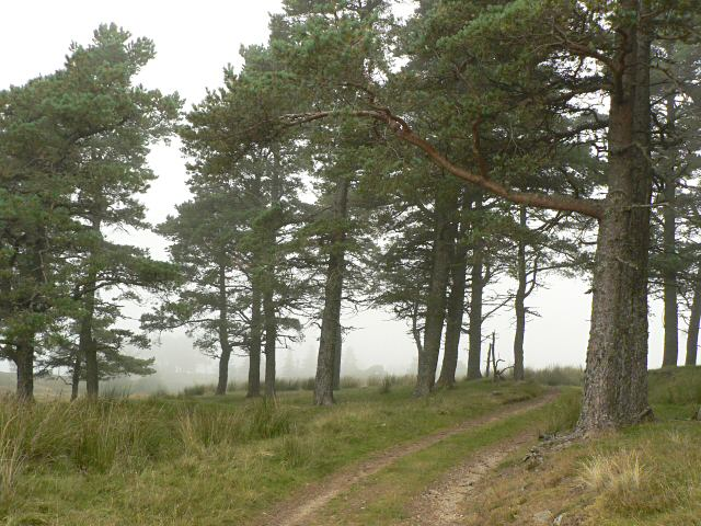 Wood. The 1940's OS map shows that this small stand of trees was once the southern tip of a much larger area of forest. Taken on a misty day when low cloud from the north sea stretched all the way from Perth to here.